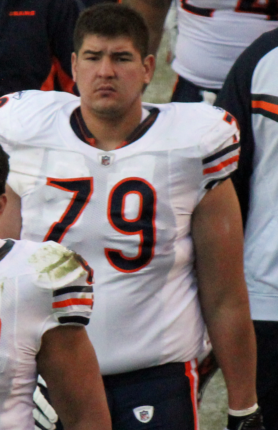 Levi Horn, a player on the National Football league.